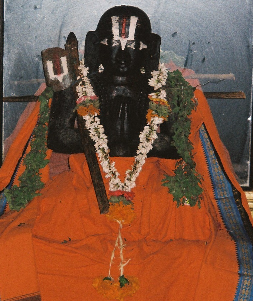 sage Ramanujacharya's statue